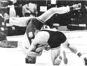 Branislav Simić (right) vs. Jiří Kormaník, final of the 1964 Olympics. Branislav Simić won the gold medal.